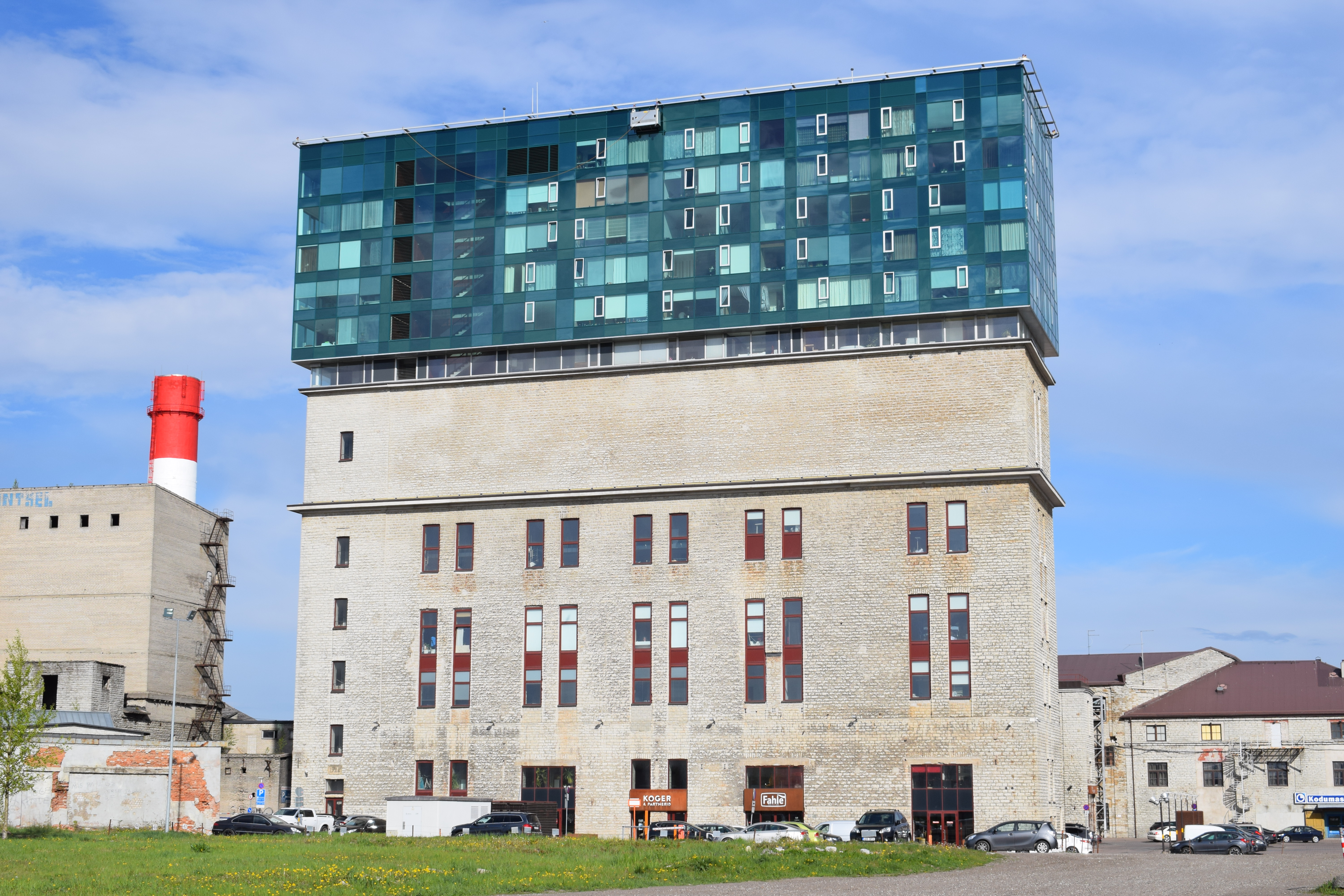 Fahle House